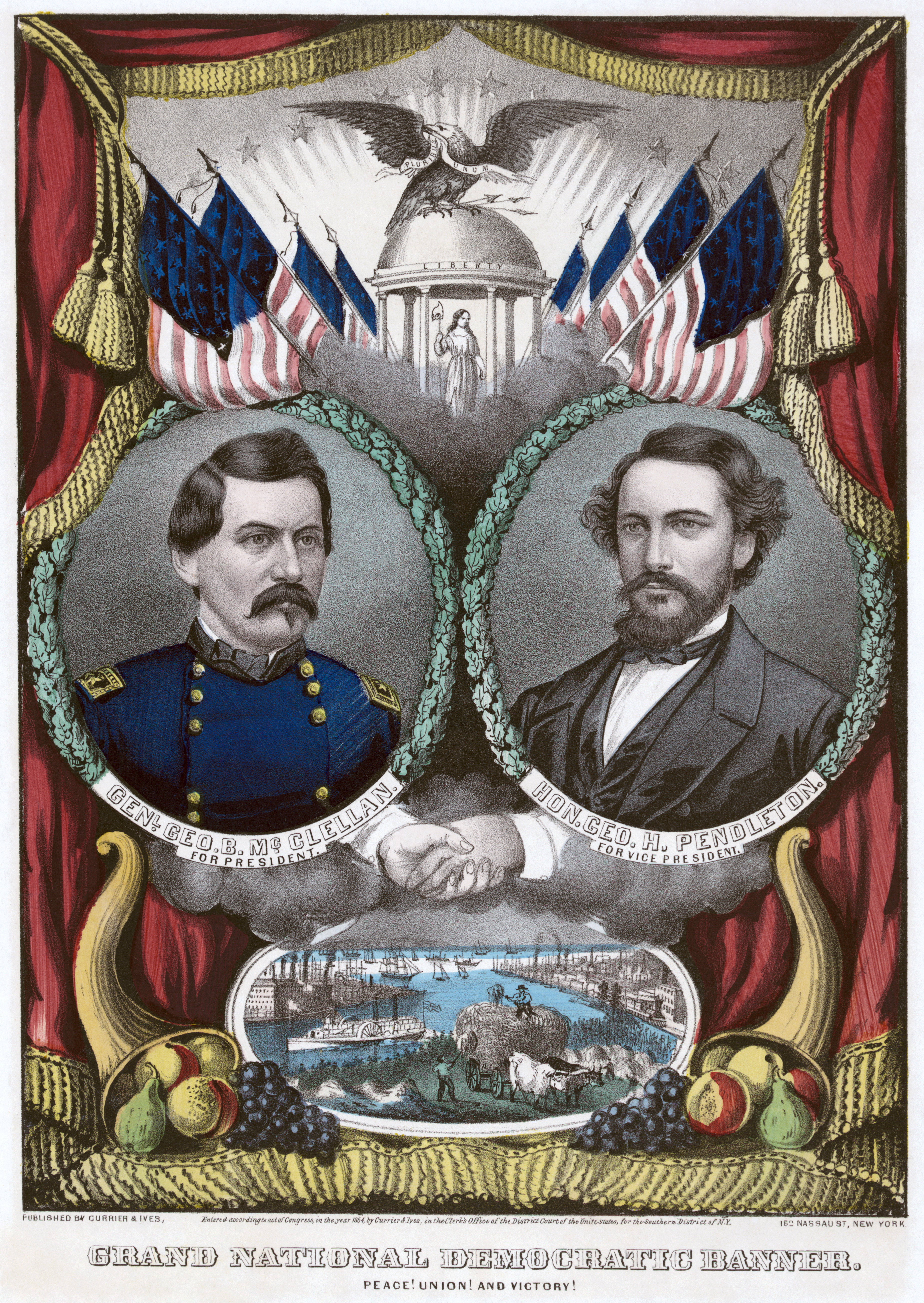 United States Democratic presidential ticket, 1864. Print shows a campaign banner, almost identical to the "Grand National Union Banner" (no. 1864-13) except for the inclusion of portraits of Democratic candidates George B. McClellan and George H. Pendleton, two additional flags above the portraits, and a vignette below of a busy harbor near a shore crowded with signs of prosperity, including factories, a locomotive, and a hay-wain. Also introduced in this version are clasped hands below the portraits. 1 print on wove paper : lithograph with watercolor ; image 32.5 x 22.6 cm. Candidates were selected at the 1864 Democratic National Convention in Chicago.